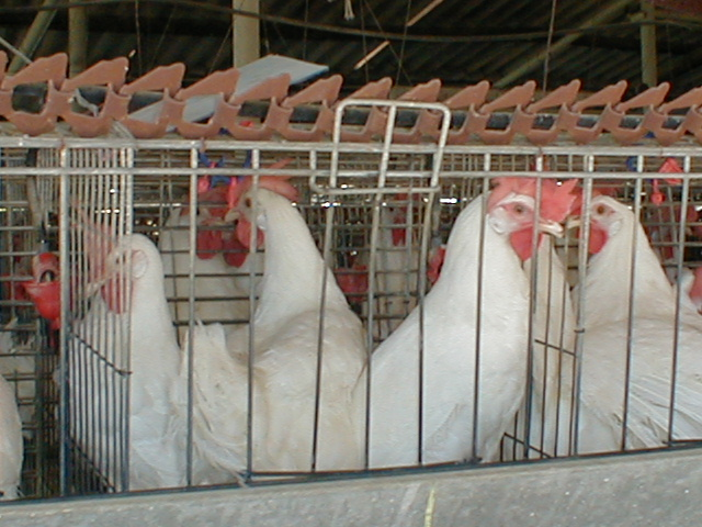 Layer's battery cage in Bustan Hagalil, Israel